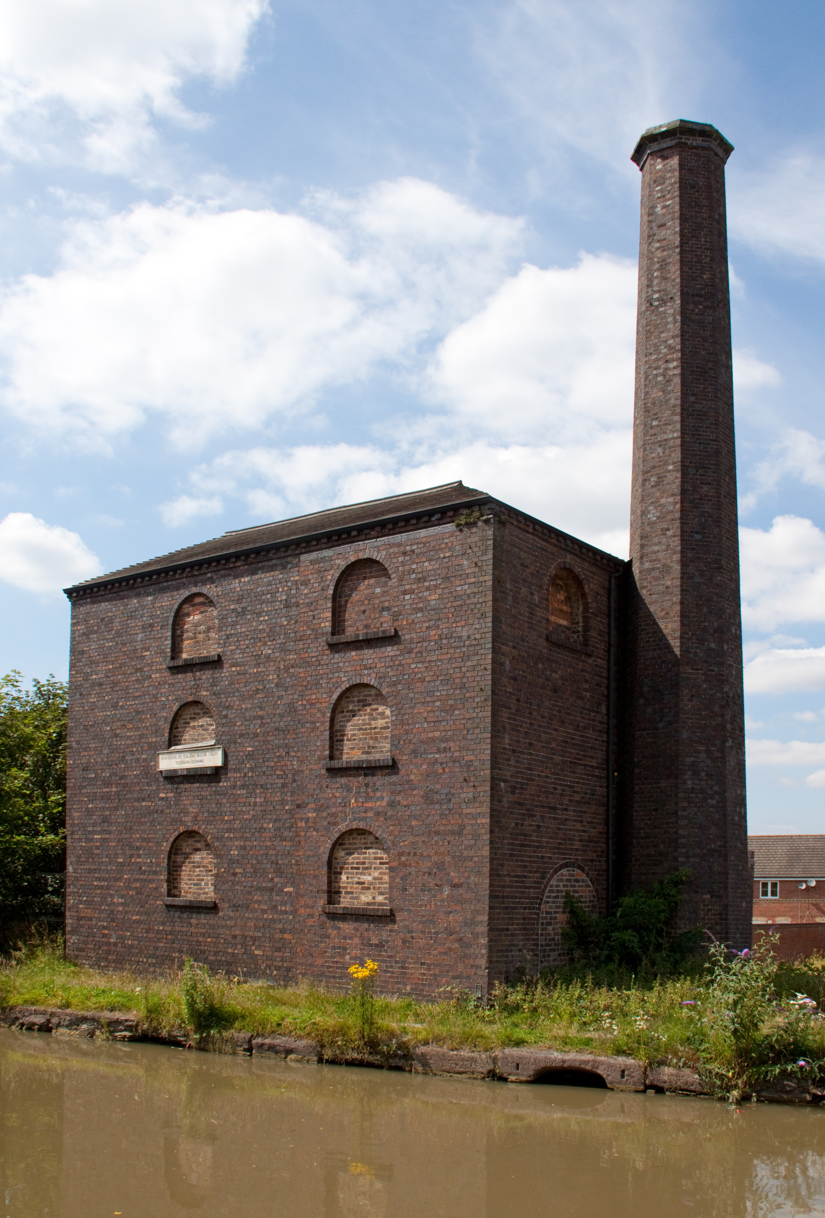 Coventry Canal engine house at Hawkesbury Junction (also called Sutton Stop), Warwickshire, the junction with the Oxford Canal